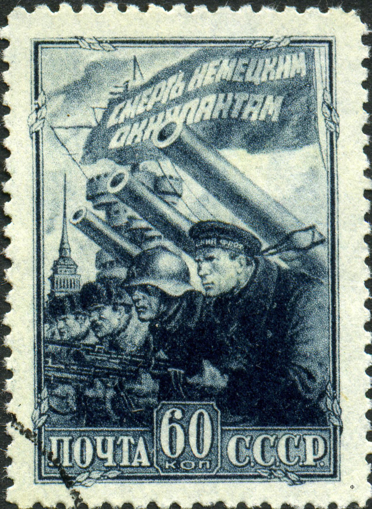 Death to German occupiers